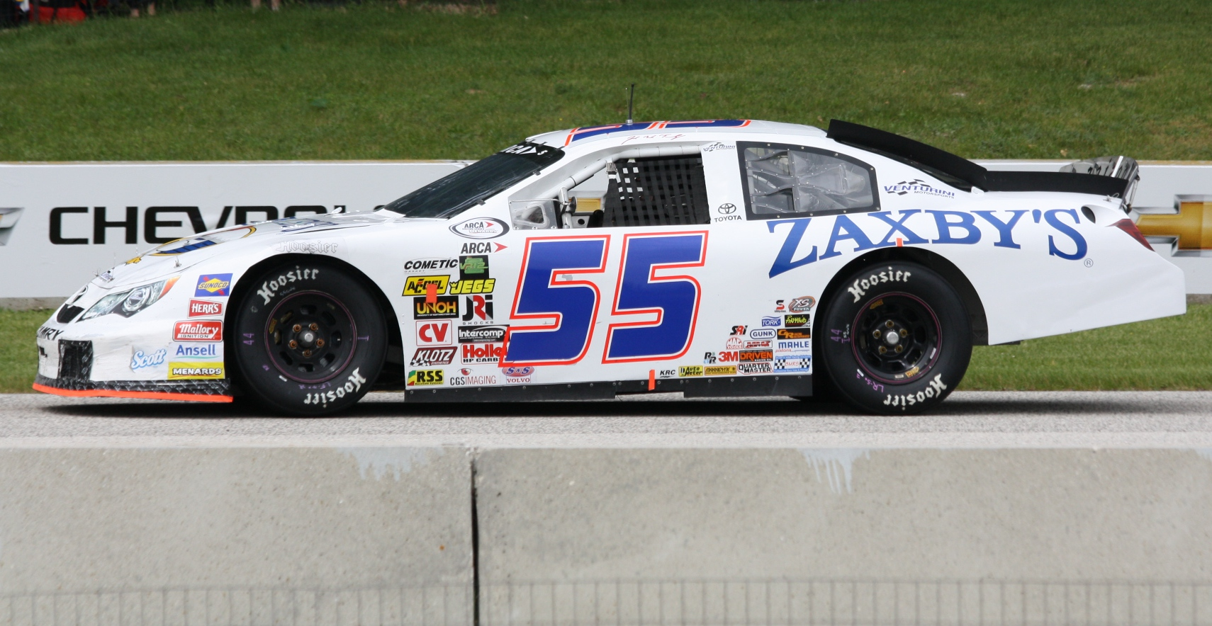 The ARCA Racing Series car of John Wes Townley at the 2013 Scott 160 race at Road America.